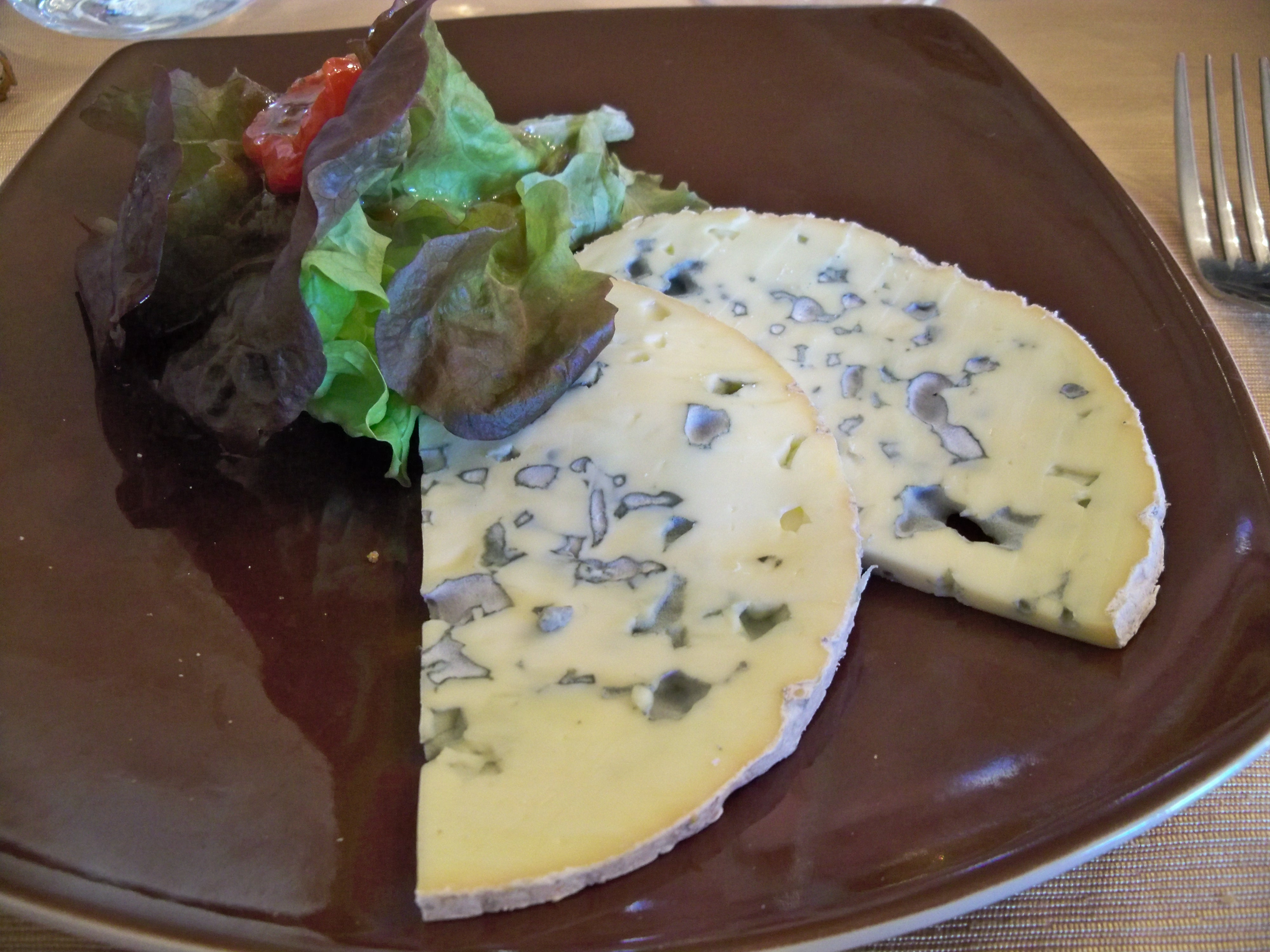 Fourme d'Ambert chesse plate